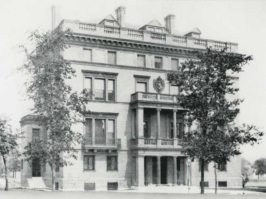 Architects McKim, Mead & White, 1927 additions by David Adler. Home to Cyrus McCormick and later to The Bateman School.